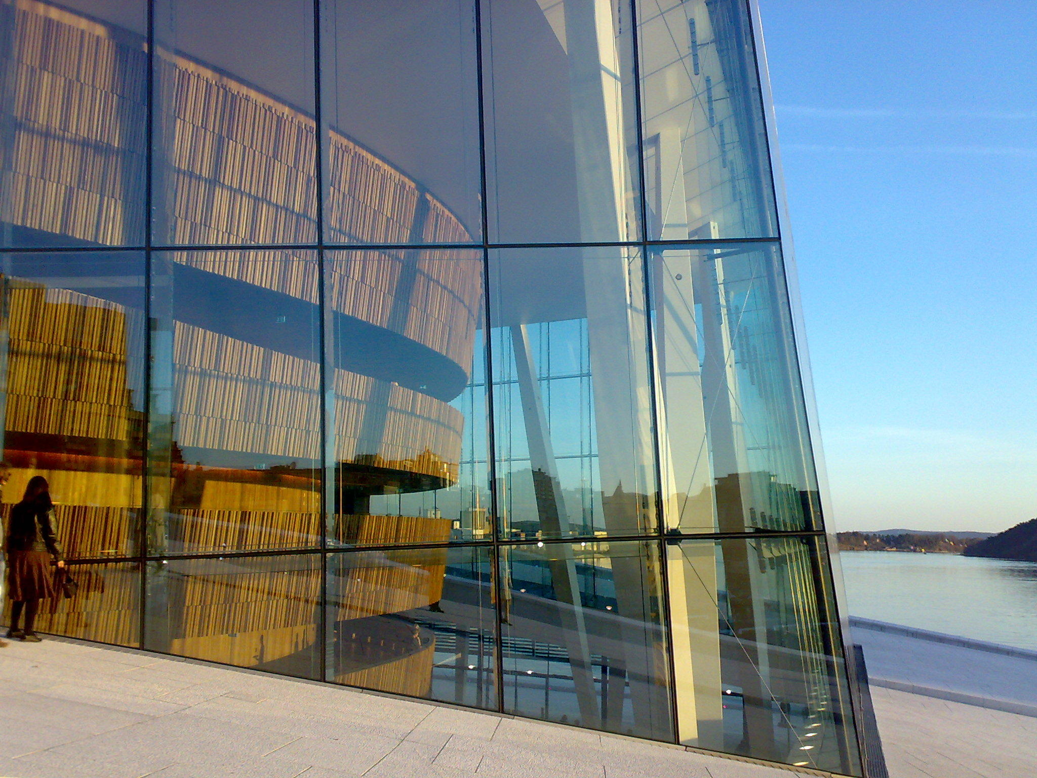 Oslo Opera